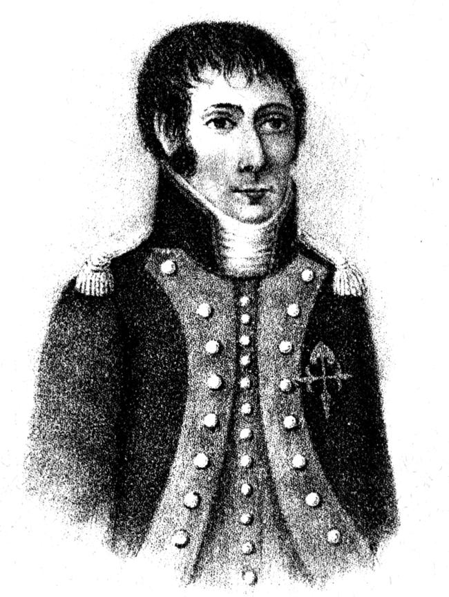 Unique and authentic portrait of Juan Francisco Borges (1766-1817), made and published by Ángel J. Carranza in 1882.